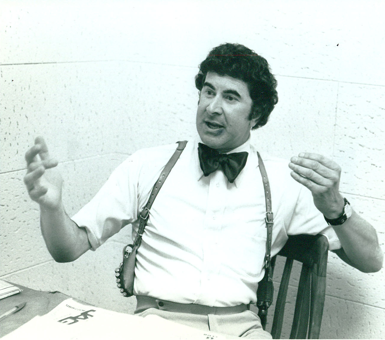 Former San Francisco Police Department inspector Dave Toschi in his office at the Hall of Justice, 7th and Bryant Streets in San Francisco, California. Photograph by Nancy Wong, 1976